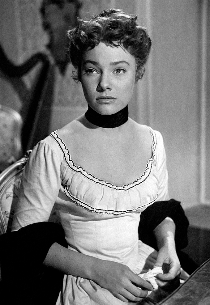 The Swedish actress May Britt wears the eighteenth-century clothes of the noblewoman Consuelo, boarded on a galleon travelling to America, in a scene from the movie The Ship of Condemned Women. Italy, 1953.